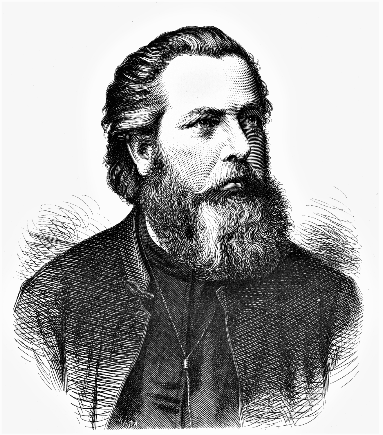 Portrait of Sydir Vorobkevych (Сидір Іванович Воробкевич, 1836 - 1903), Ukrainian poet and composer using nickname "Danilo Mlaka"